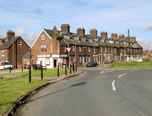 Residential homes in Middlecliffe, an English hamlet.